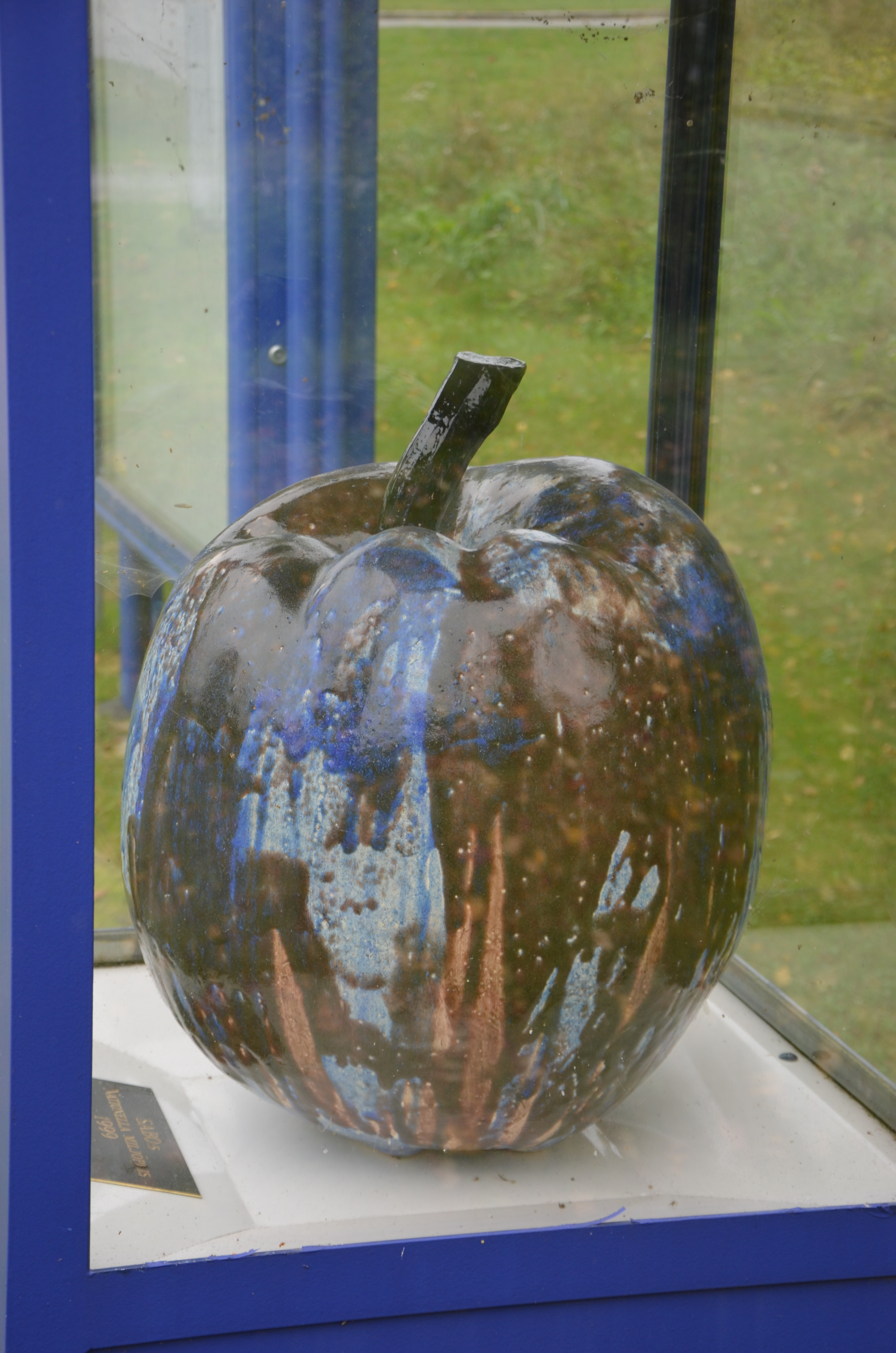 SABO:s nationella pris 1999 till Hällefors Bostads AB, av Gösta Grähs